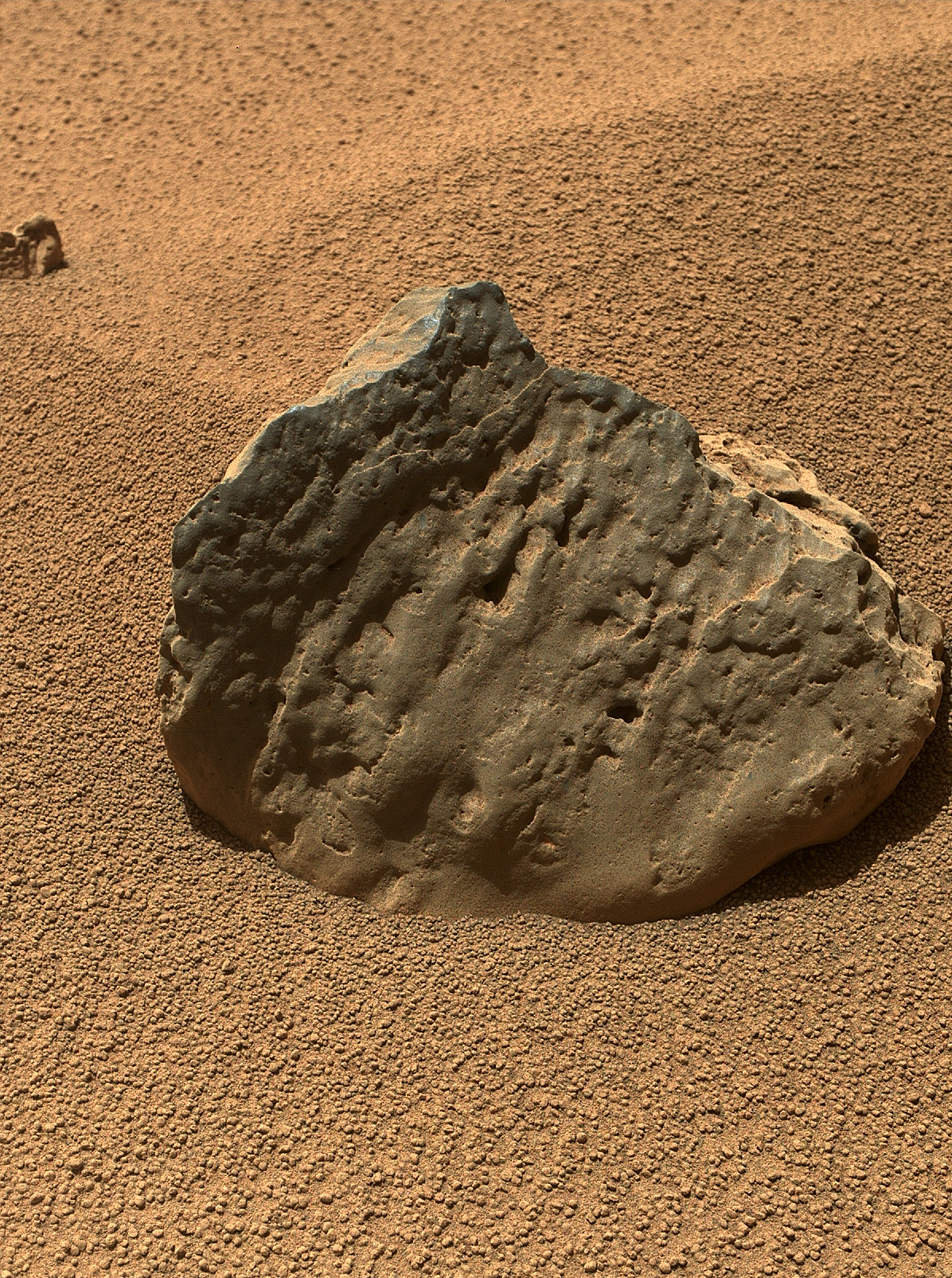 10.29.2012 Rock 'Et-Then' Near Curiosity, Sol 82 The Mars Hand Lens Imager (MAHLI) on the arm of NASA's Mars rover Curiosity took this image of a rock called "Et-Then" during the mission's 82nd sol, or Martian day (Oct. 29, 2012.) The rock's informal name comes from the name of an island in Great Slave Lake, Northwest Territories, Canada. MAHLI viewed the rock from a distance of about 15.8 inches (40 centimeters). The image covers an area about 9.5 inches by 7 inches (24 centimeters by 18 centimeters). Et-Then is located near the rover's front left wheel, where the rover has been stationed while scooping soil at the site called "Rocknest." This is one of three images acquired by MAHLI from slightly different positions so that a three-dimensional information could be used to plan possible future examination of the rock. Image Credit: NASA/JPL-Caltech/MSSS